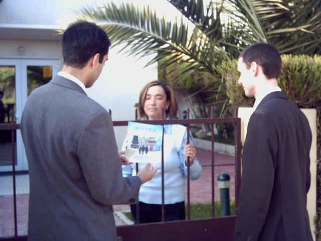 Work of evangelization typical of Jehovah's witnesses: to contact people in their own homes.